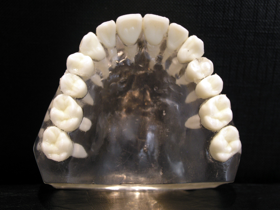 Demonstration model, upper jaw. The photo was taken the 23rd December 2005 by Håkan Svensson (Xauxa).